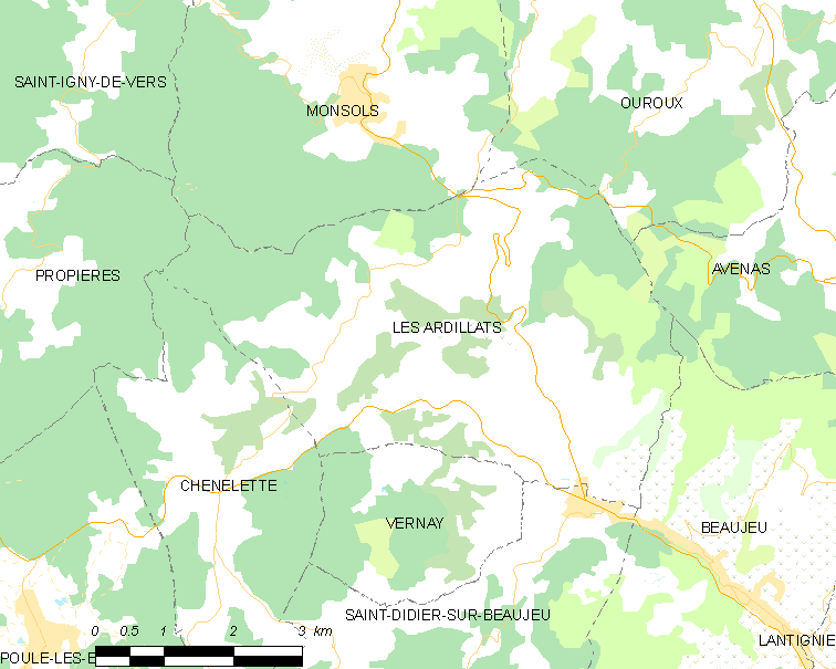 Map of French municipality